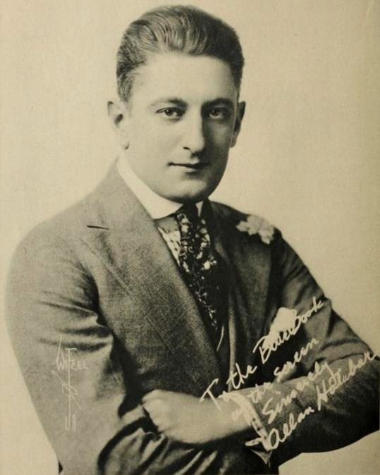 film director Allen Holubar - publicity still (cropped)